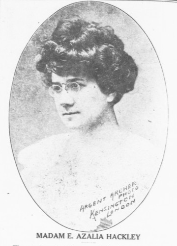 Madame E. Azalia Hackley, 1919